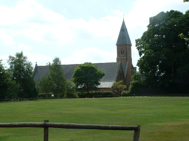 Stapehill Abbey near Wimborne. 19th century building originally inhabited by Cistercian nuns, now a popular garden and crafts centre.